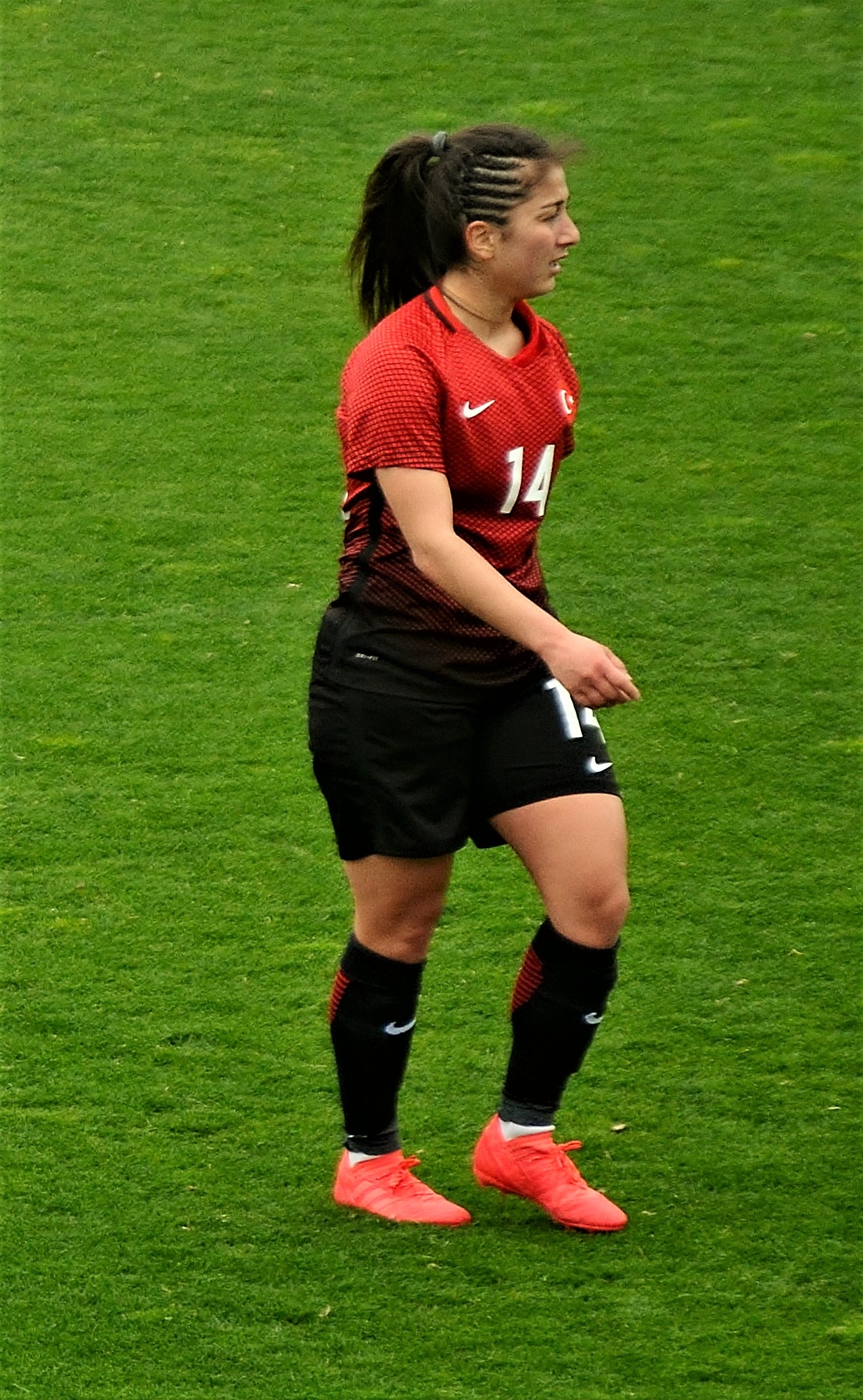 Selen Altunkulak playing for Turkey women's national football team in the friendly home match against Estonia at TFF Riva Facility on 7 April 2018.